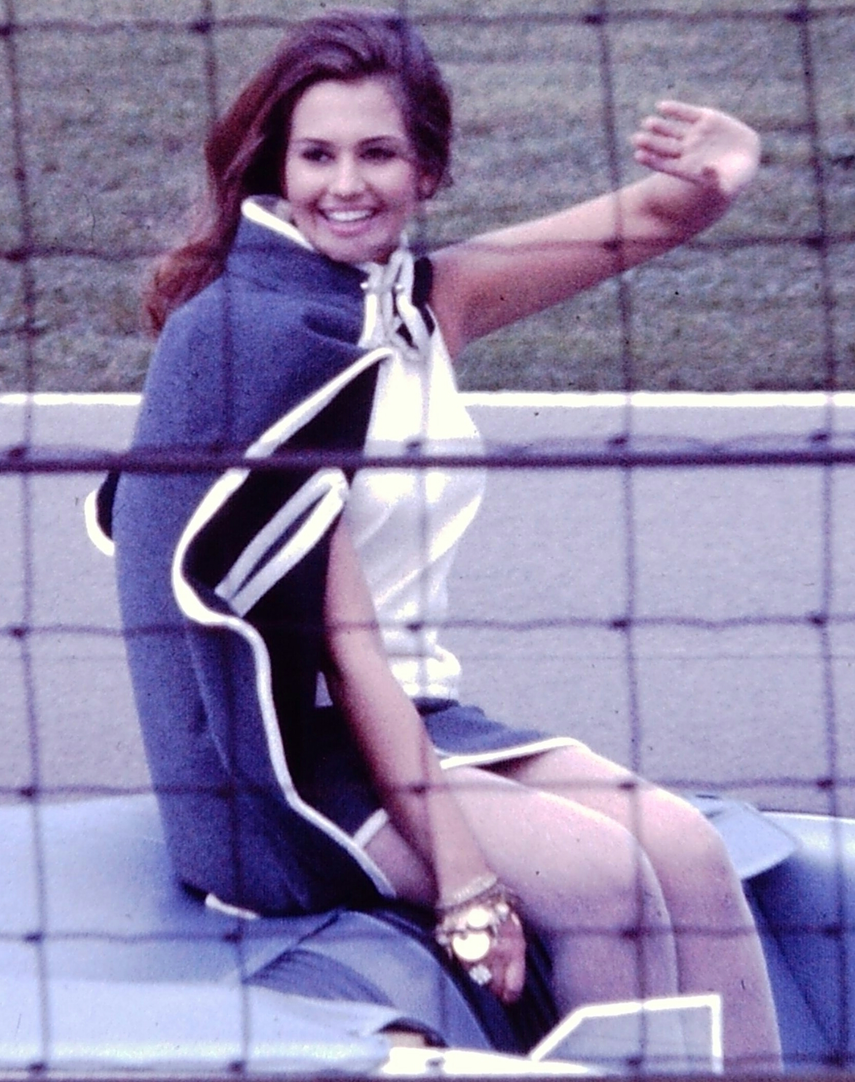 A picture taken from my late great grandfather of Sylvia Hitchcock at the Indianapolis 500 on May 30, 1968.